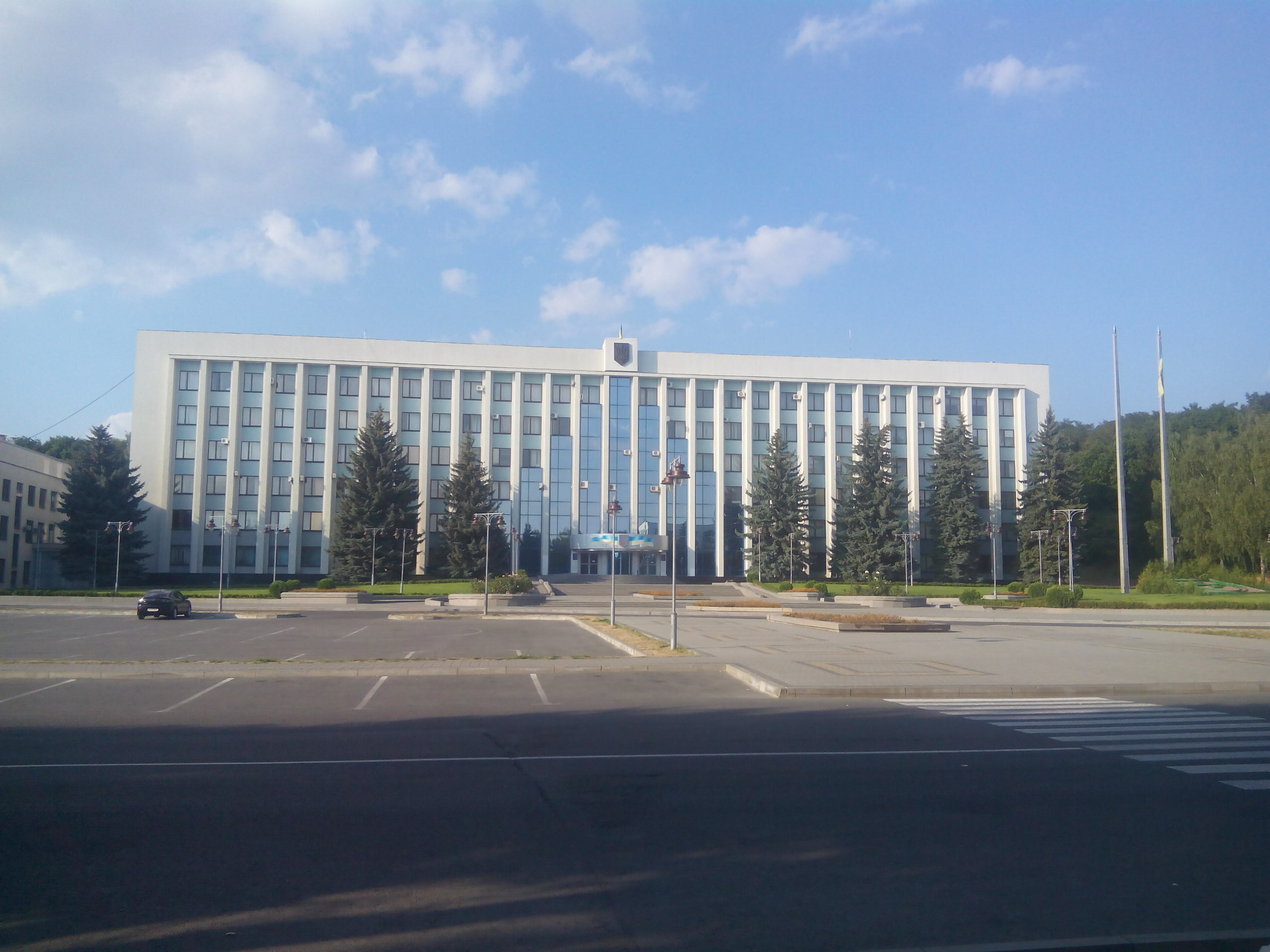 Rivne Regional State Administration building